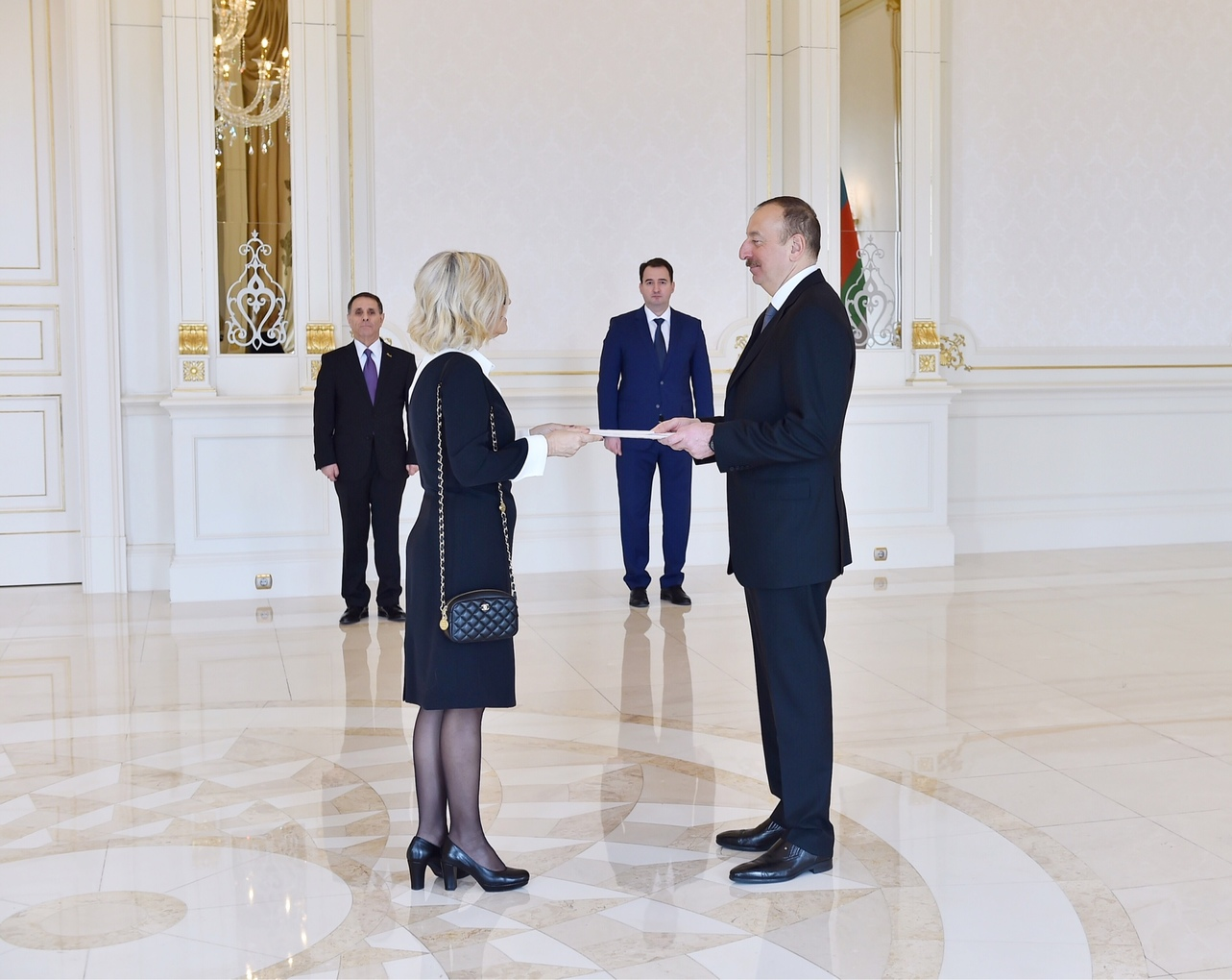 Ilham Aliyev accepted credentials of incoming Portuguese Ambassador